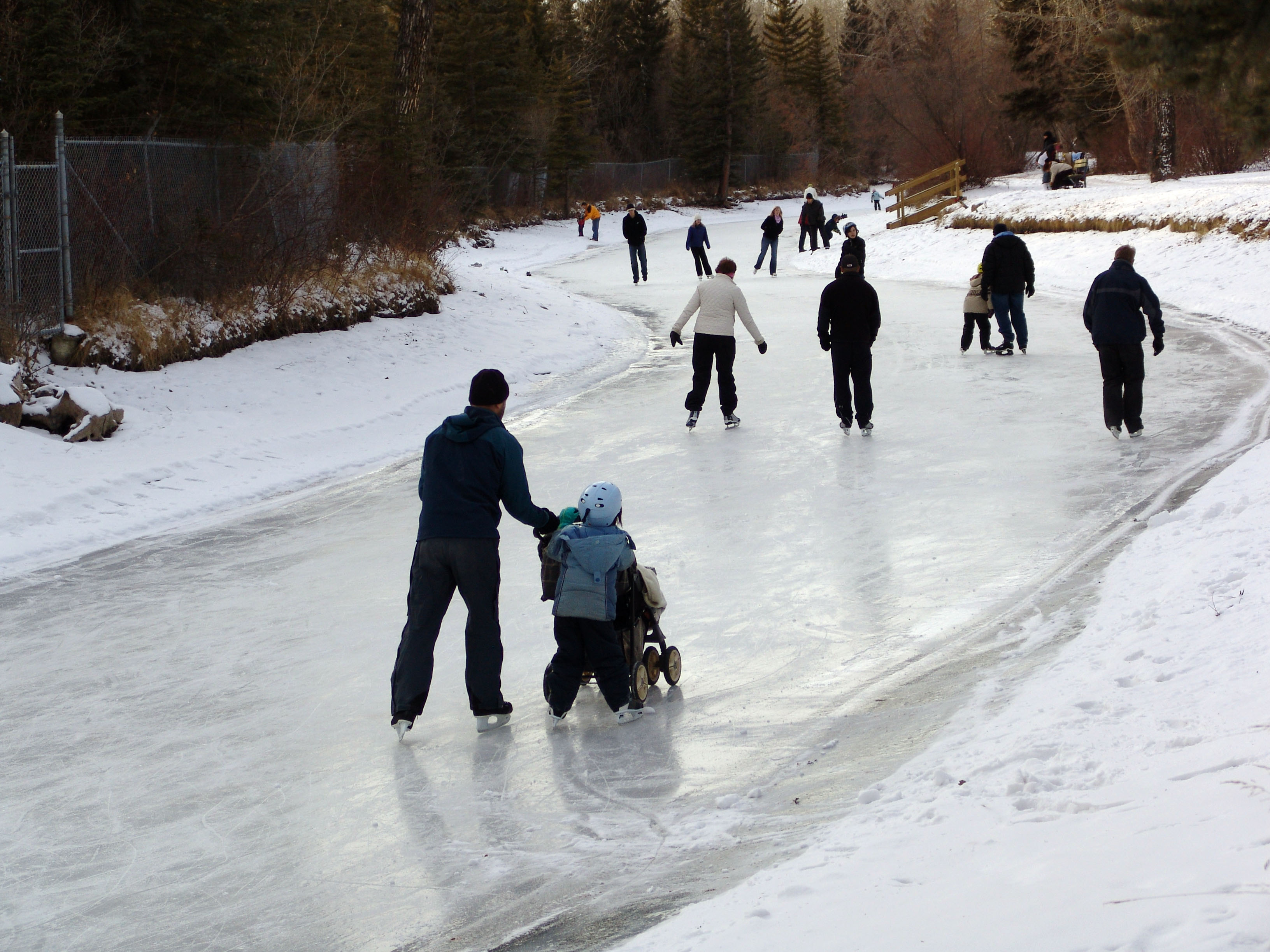 Ice skating on frozen River in Calgary Bowness Park (Sluice Gate, an arm of the Bow River)